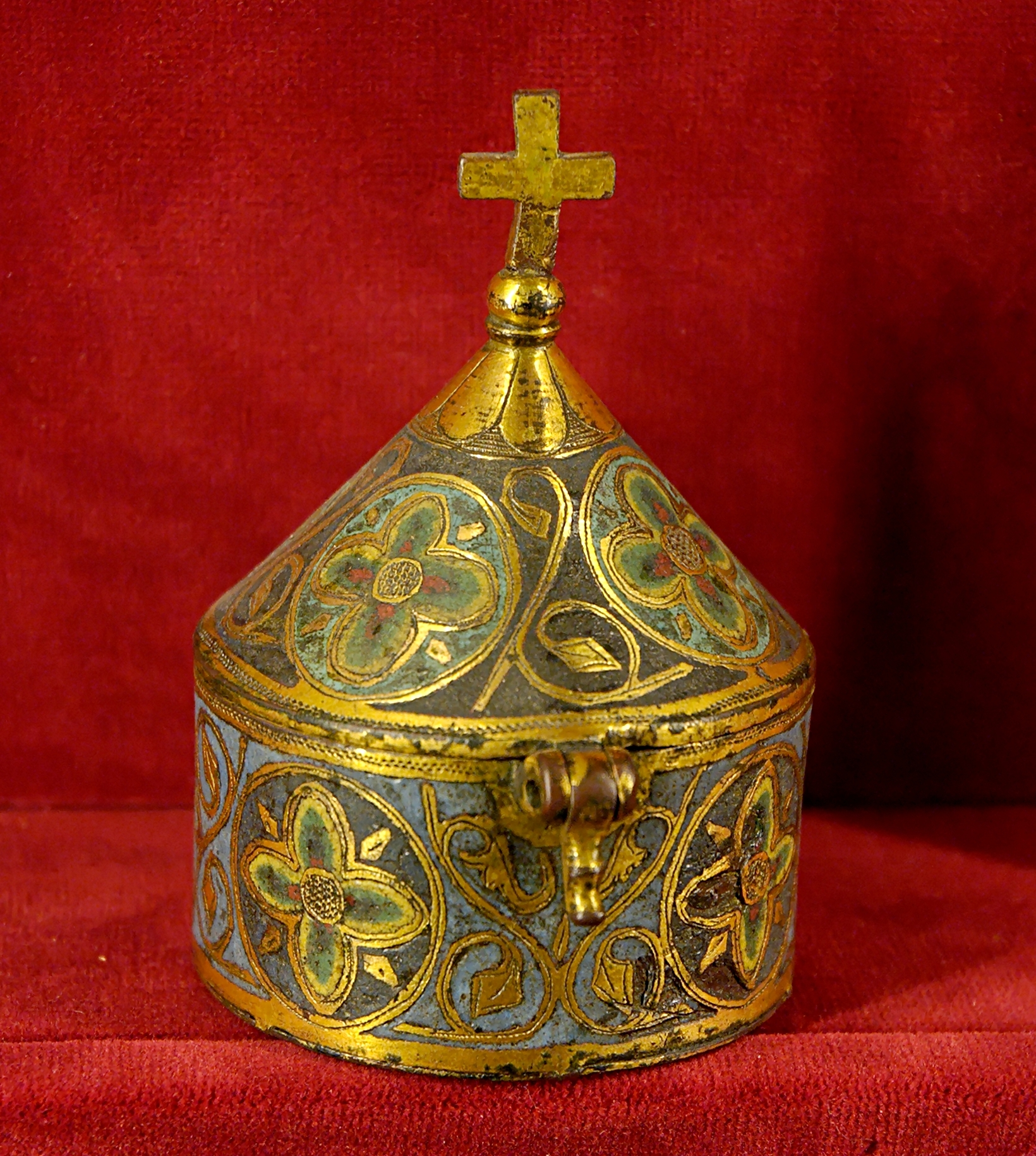 Pyx with four-leaves clover decoration. Champlevé copper, enameled and gilt. Limoges, first half of the 13th century.